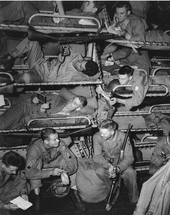 Troops en route to Oran, Algeria, 15 June 1943 Troops headed for the invasion of Sicily studying guidebooks for North Africa and otherwise passing the time in their bunks on board a U. S. Navy transport. The ship may be USS James O'Hara (APA-90). Note that these men are armed with bolt-action Springfield rifles. They are from the 45th Infantry Division. Official U.S. Navy Photograph, now in the collections of the National Archives.